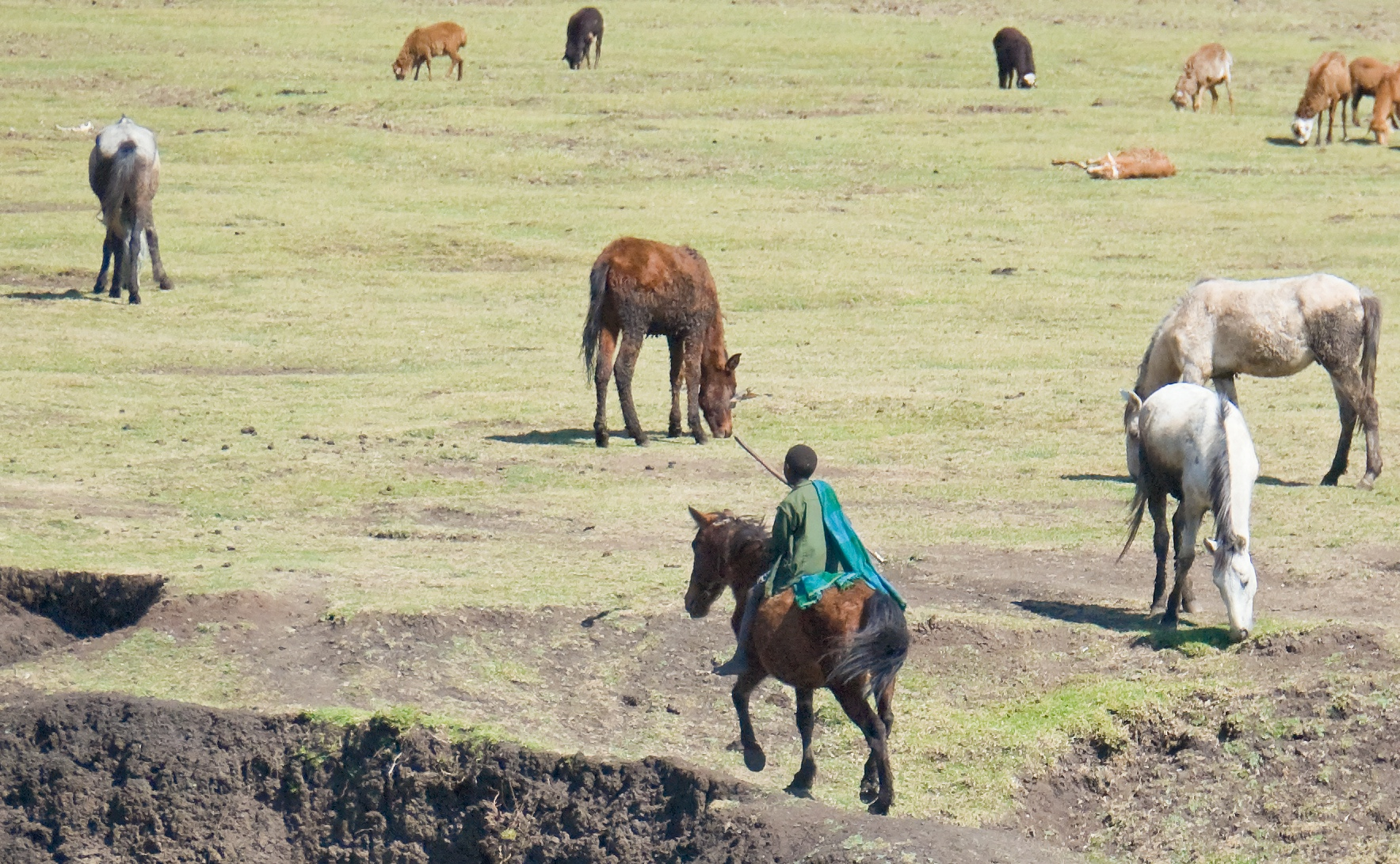 On The Road To Simien Mountains National Park, Ethiopia